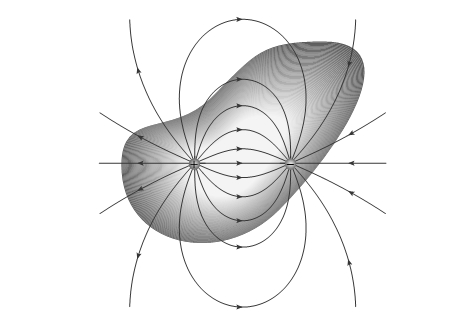 Gaussian surface: null flux.